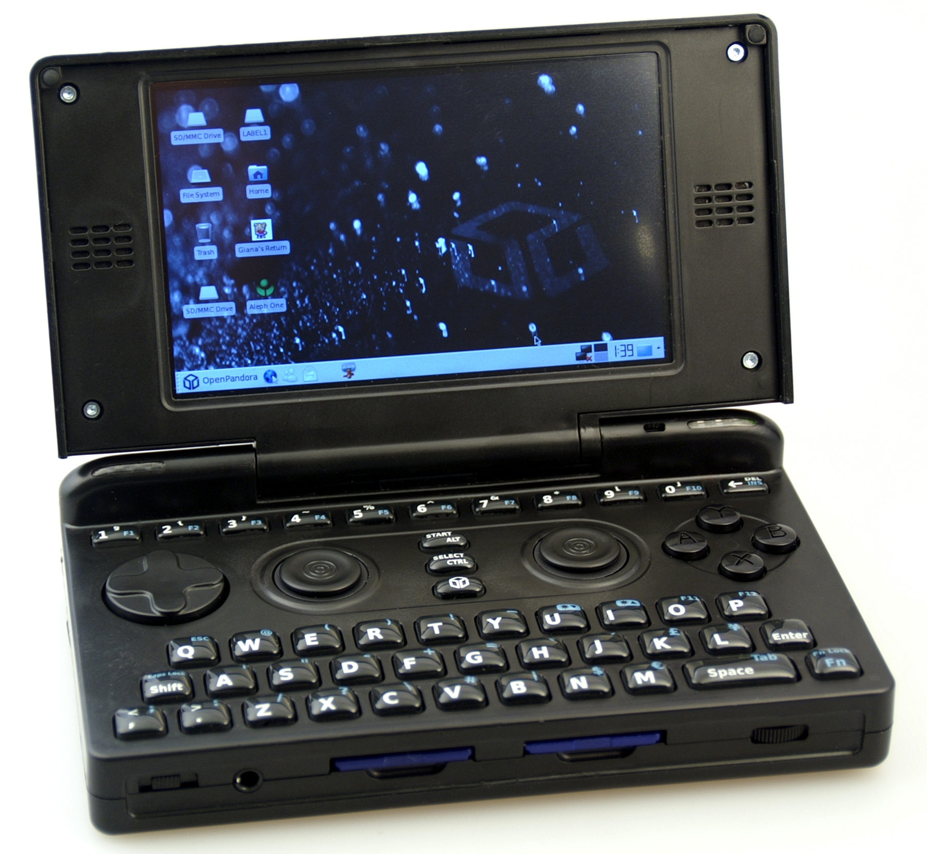 Photo of a finished Pandora Photo of a mass-produced Pandora console by Michael Mrozek